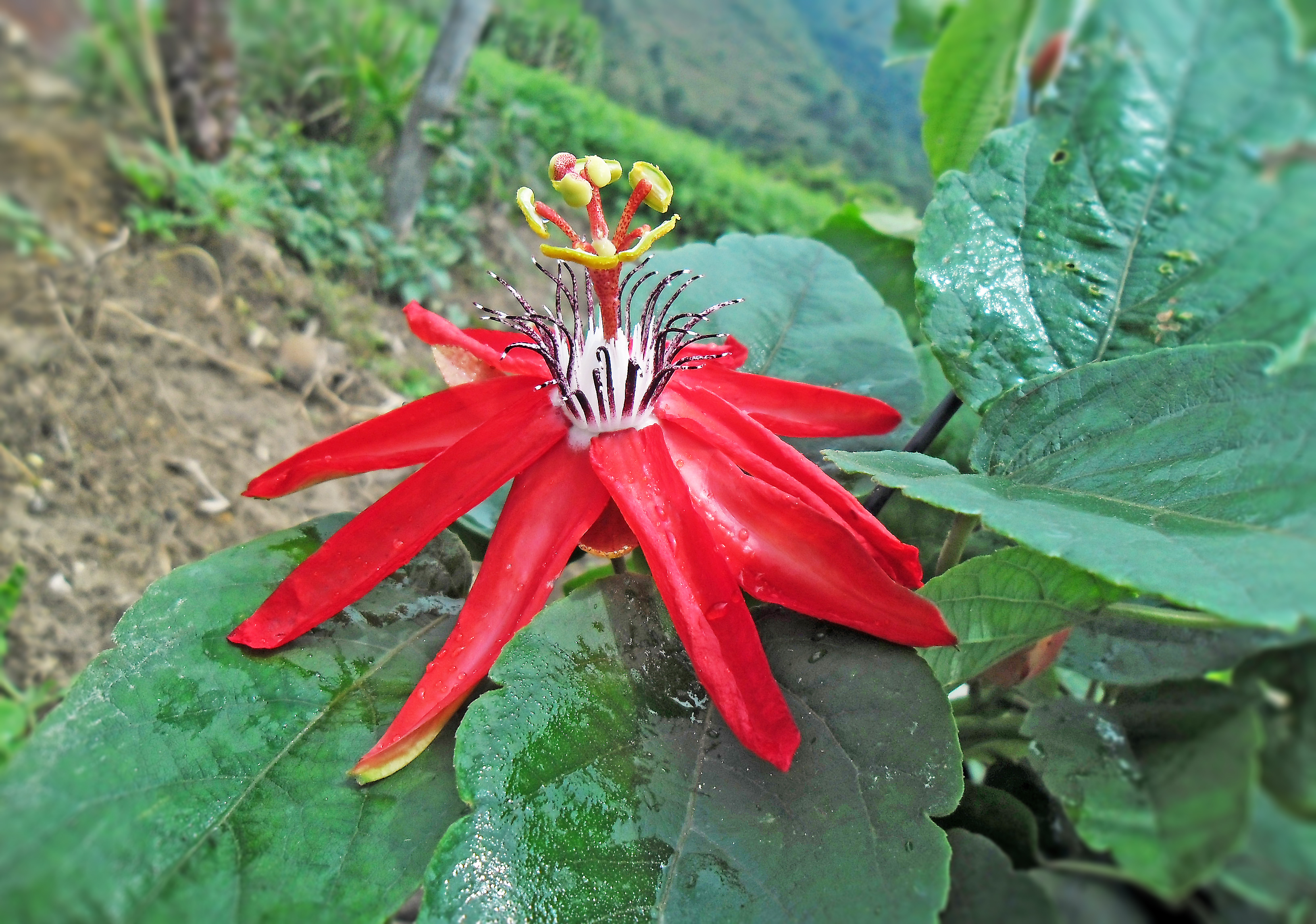 Earth100 captured this sidview shot of a Passiflora coccinea flower in full bloom on April 20, 2013, in Hong Kong.